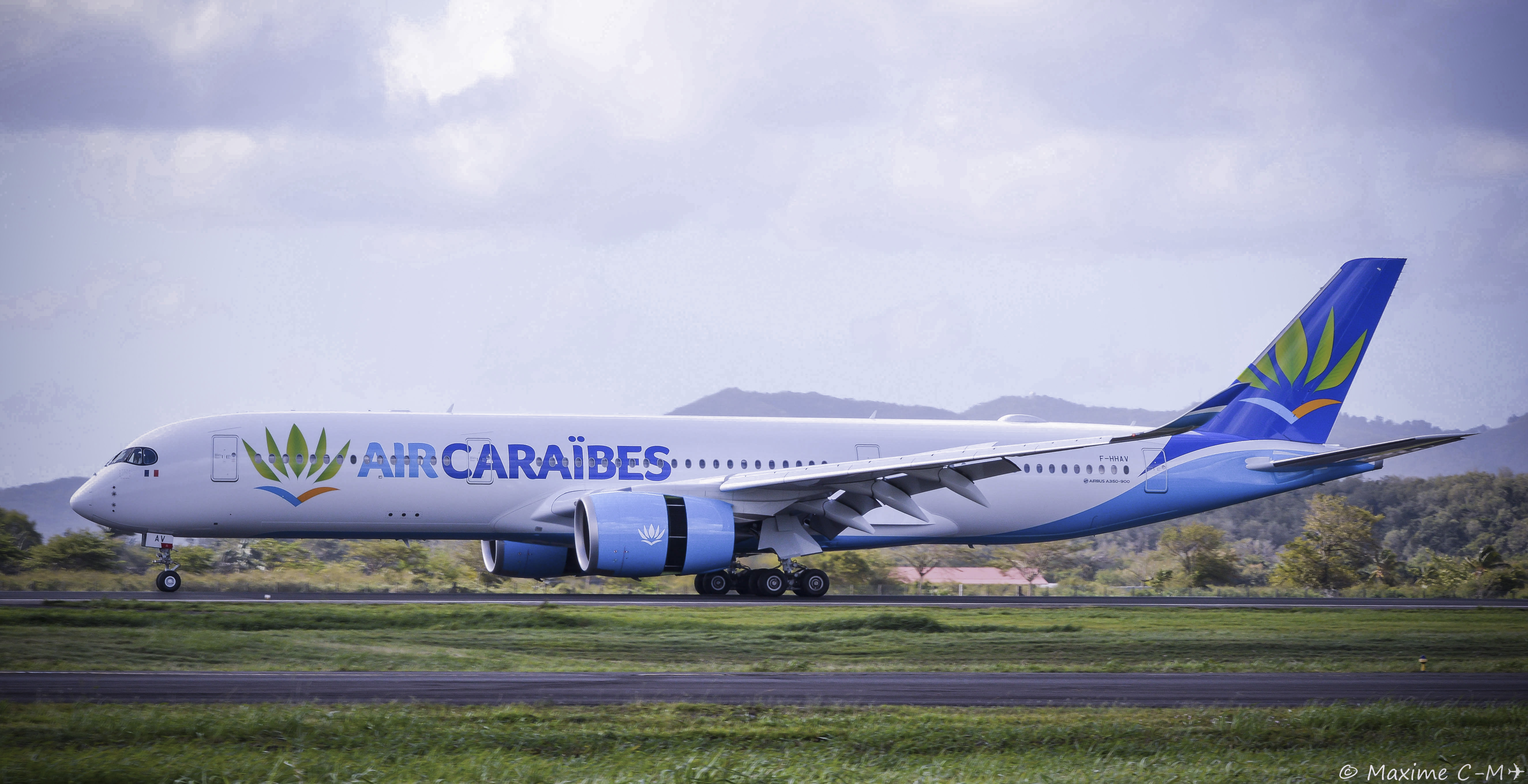 Air Caraïbes Airbus A350-941 (F-HHAV) at Martinique Airport